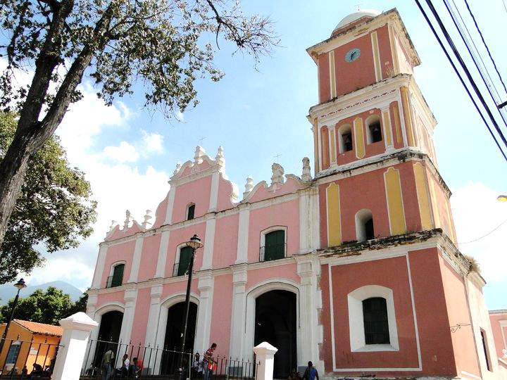 IGLESIADEPETARE.jpg